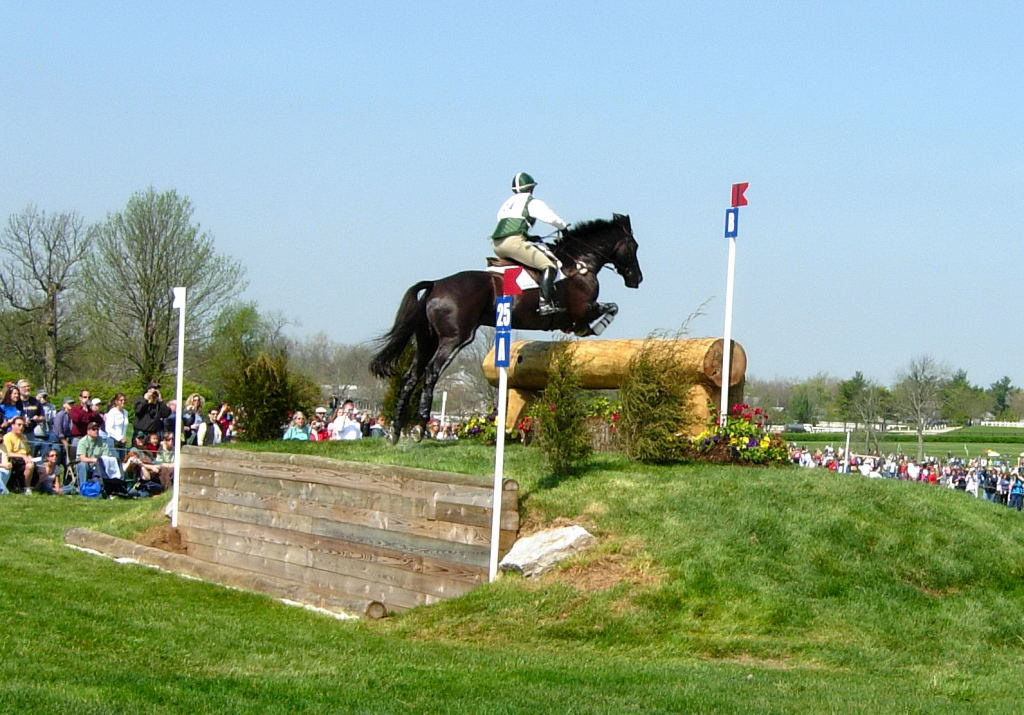 2007 Rolex 3-day. Normandy bank, elements a and b.